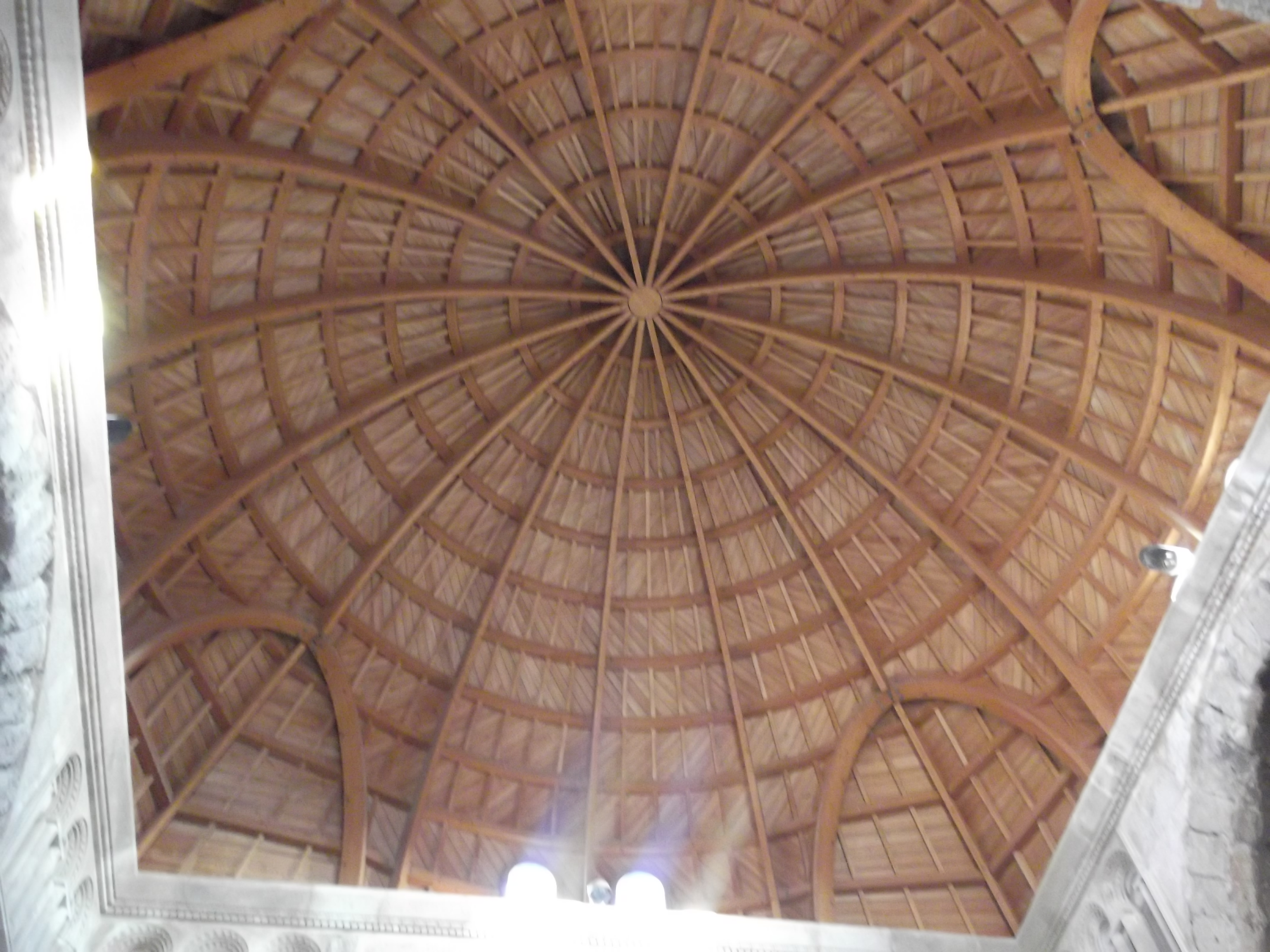 Inside the Umayyad Palace, looking up at the dome